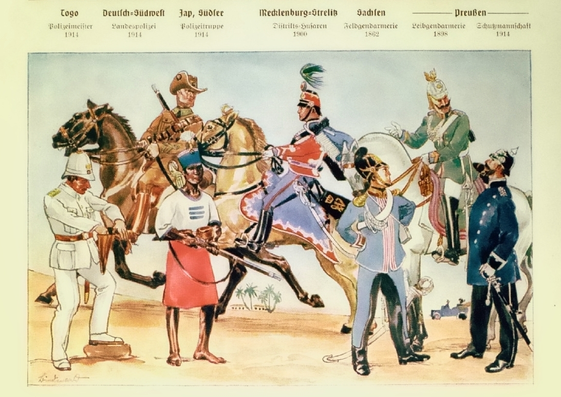 german military police